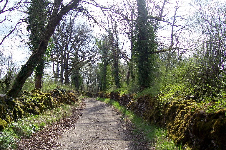 Small road between place called "le Vic" and the township of Sonac in Lot department in France.